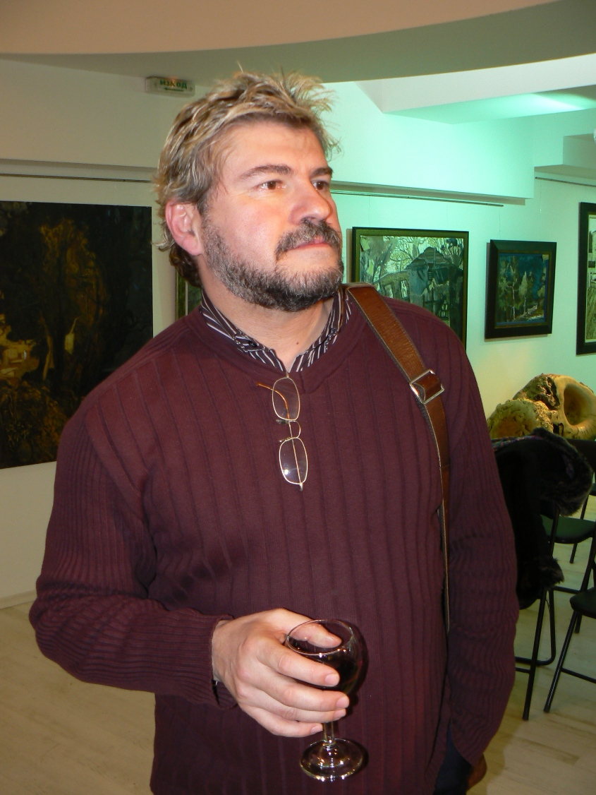 Bulgarian literary critic Dimitar Kamburov, at the presentation of Hristo Karastoyanov's book "The Spider" in Sofia